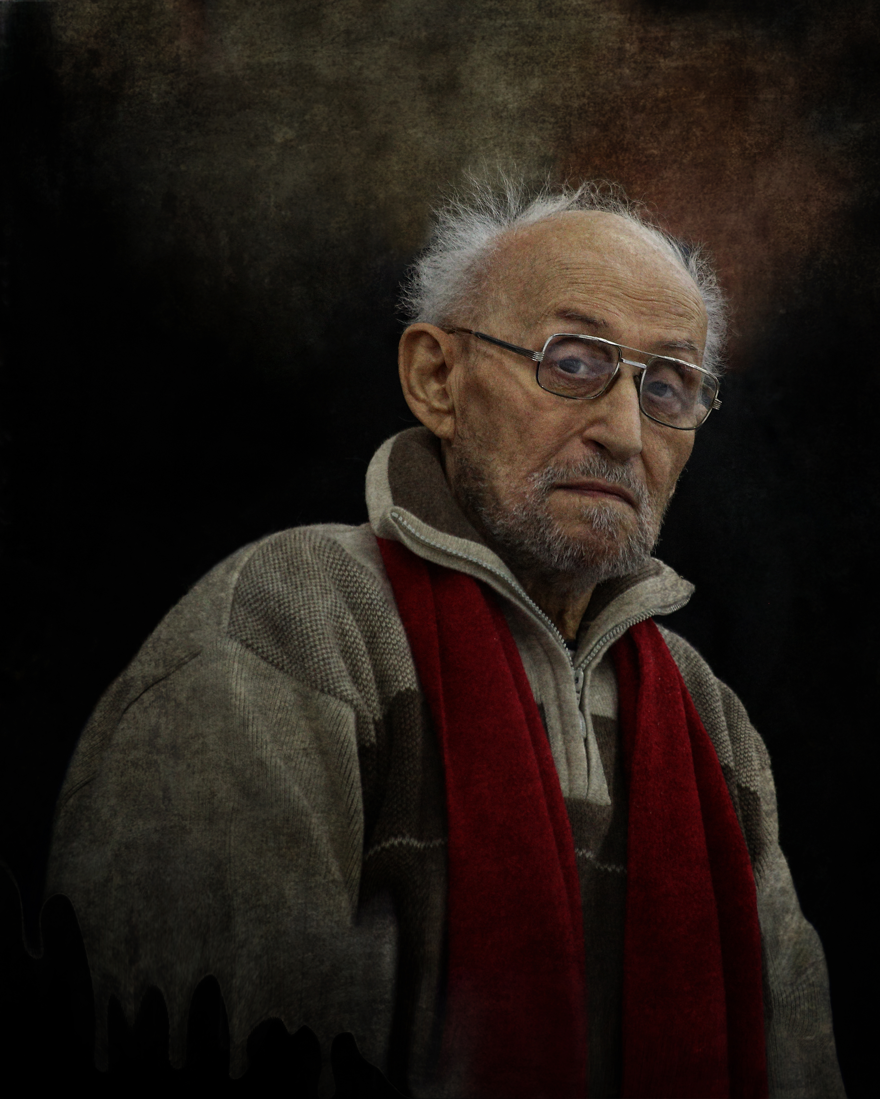 Mai Dantsig, photo by Eugeny Kolchev, 2013